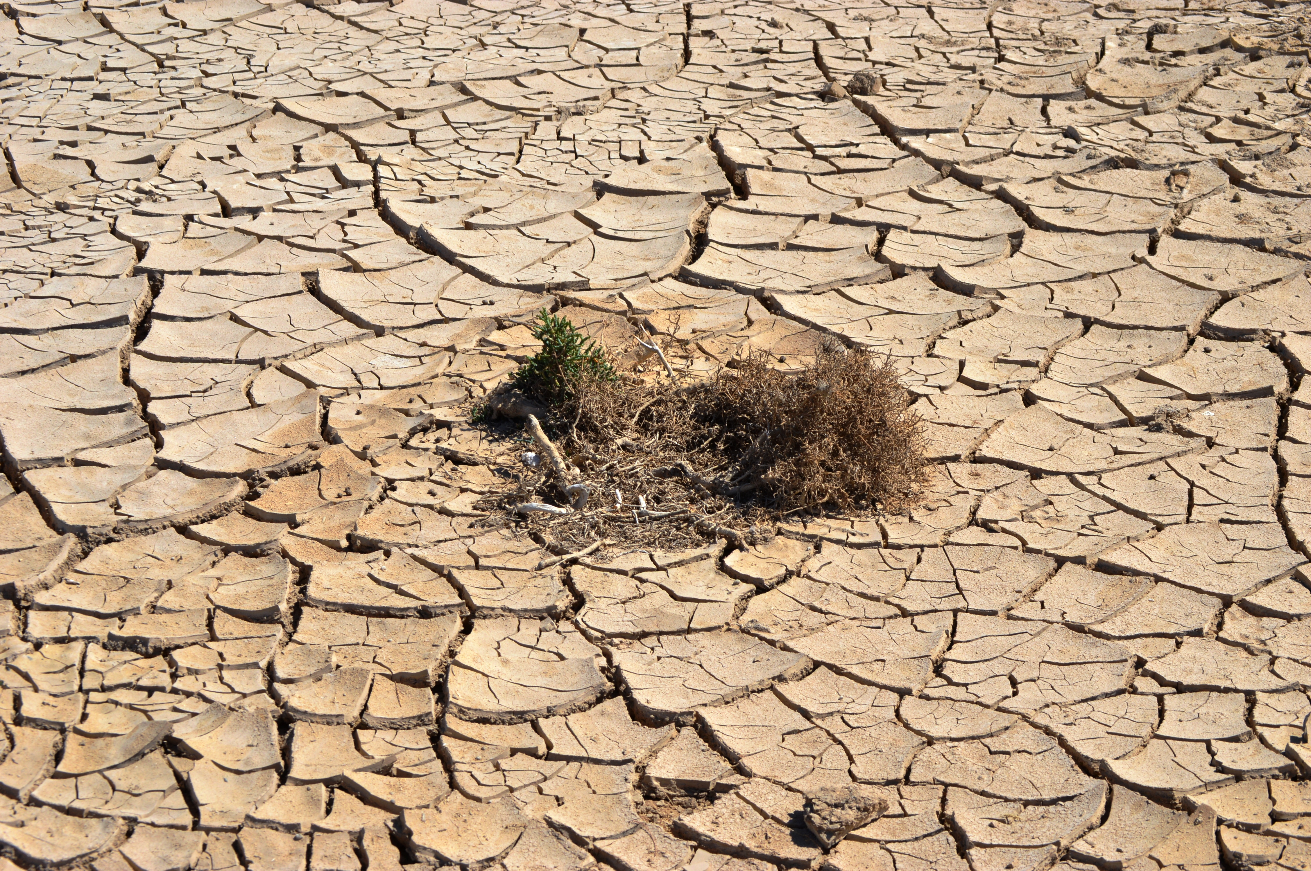 Dry soil near the northwestern shore of the Salton Sea at Salton City, California, off Salton Bay Drive (near Dias Avenue).